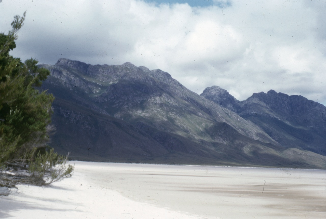 A scan of a slide of Lake Pedder Beach taken in March 1966